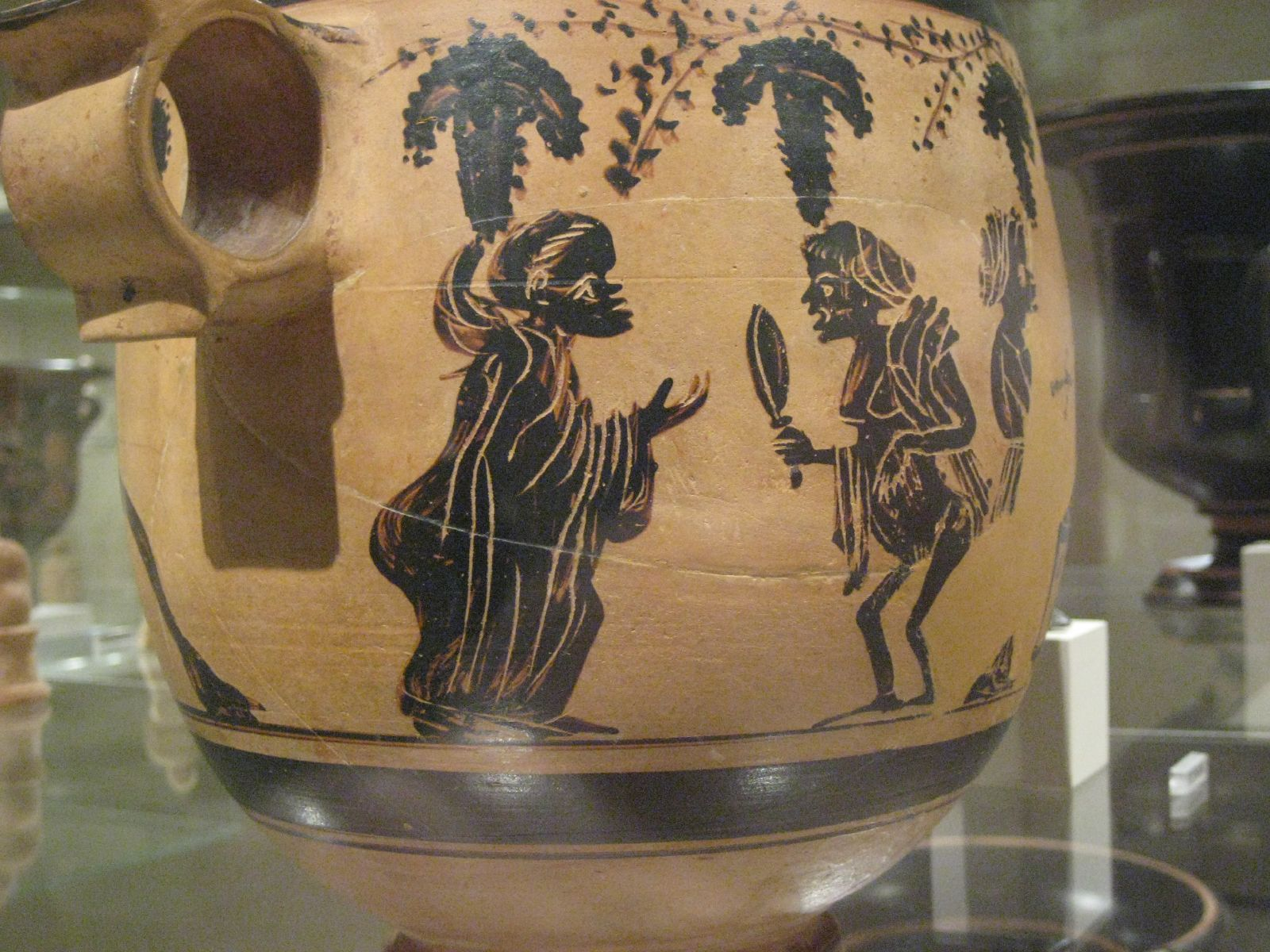 Boeotian black-figure Skyphos. Mid 4th century BC. Closely related to the Vine Tendril Group. Obverse, reclining man and three crones (the Judgement of Paris?). Reverse, ogress pursuing three pygmies.